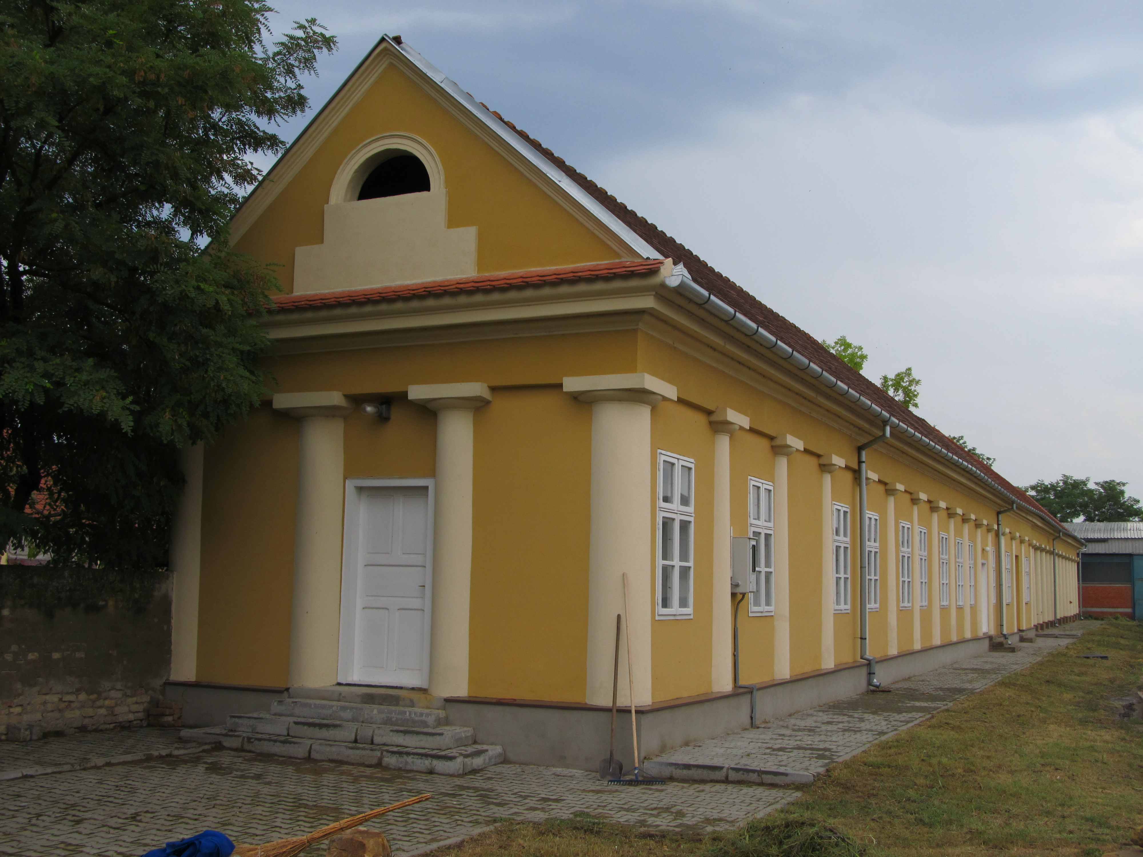 Maize store in Novo Miloševo